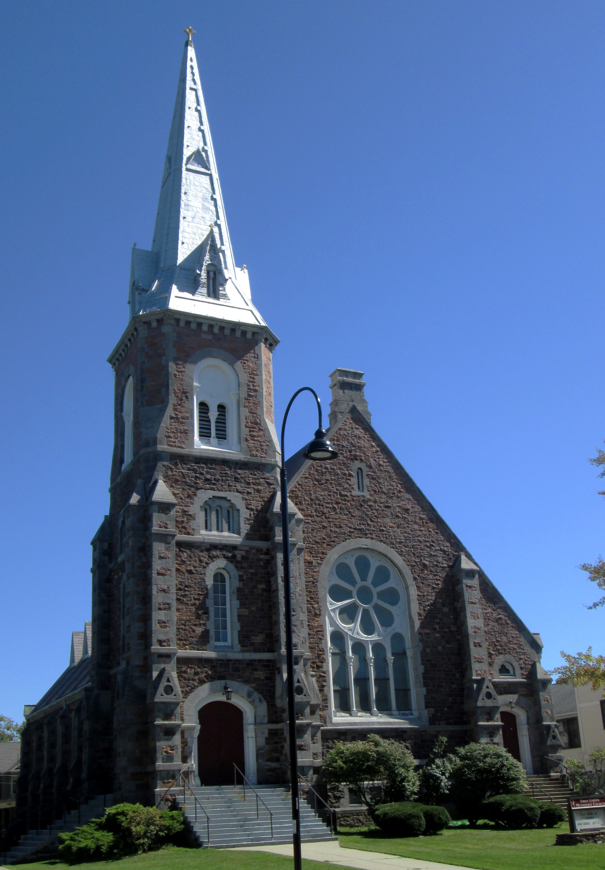 The First United Methodist Church at 21 Buell Street at S. Winooski Avenue in Burlington, Vermont was built in 1869 and was designed by Alexander R. Esty in the Romanesque Revival style. It is listed on the National Register of Historic Places.